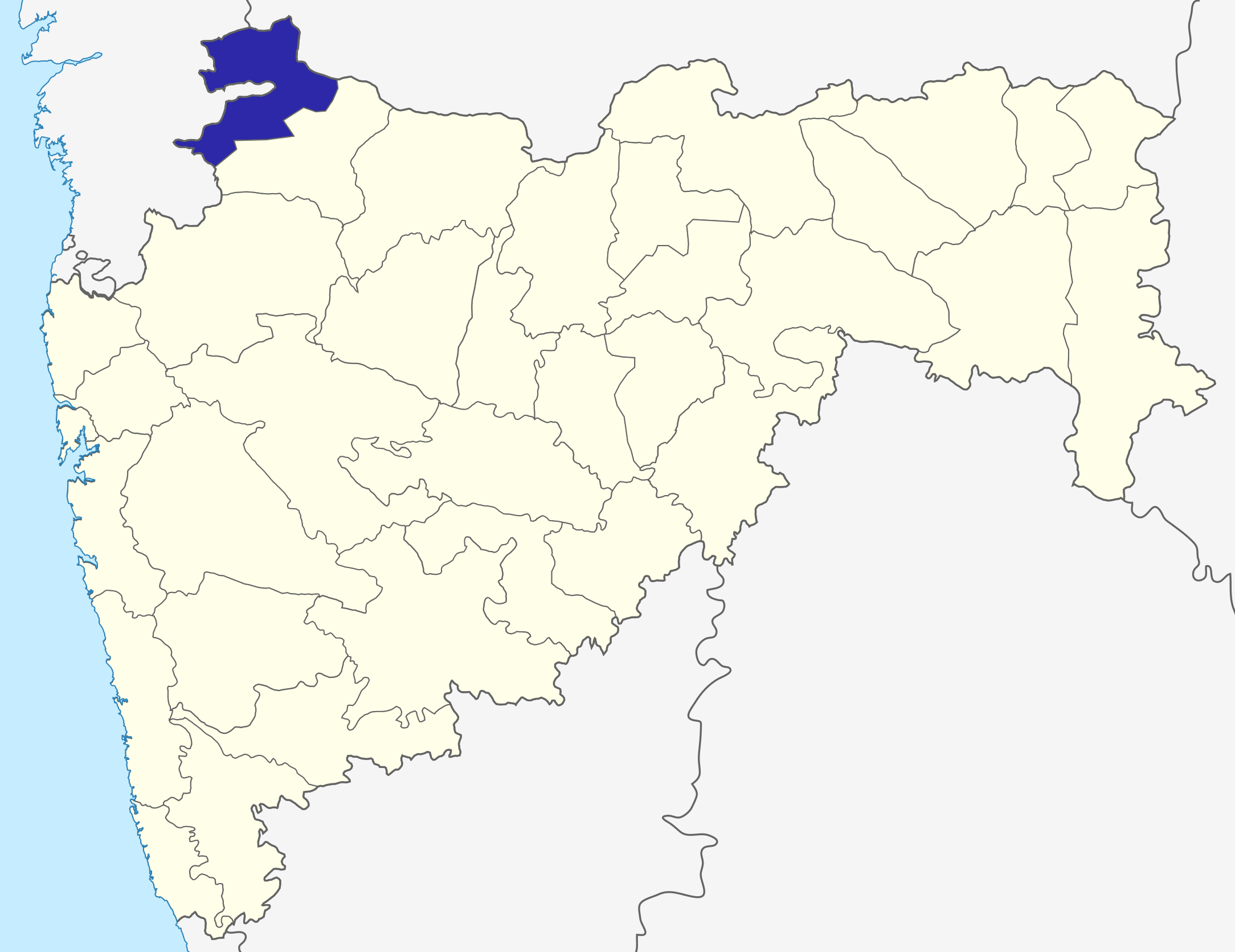 Nandurbar district in Maharashtra